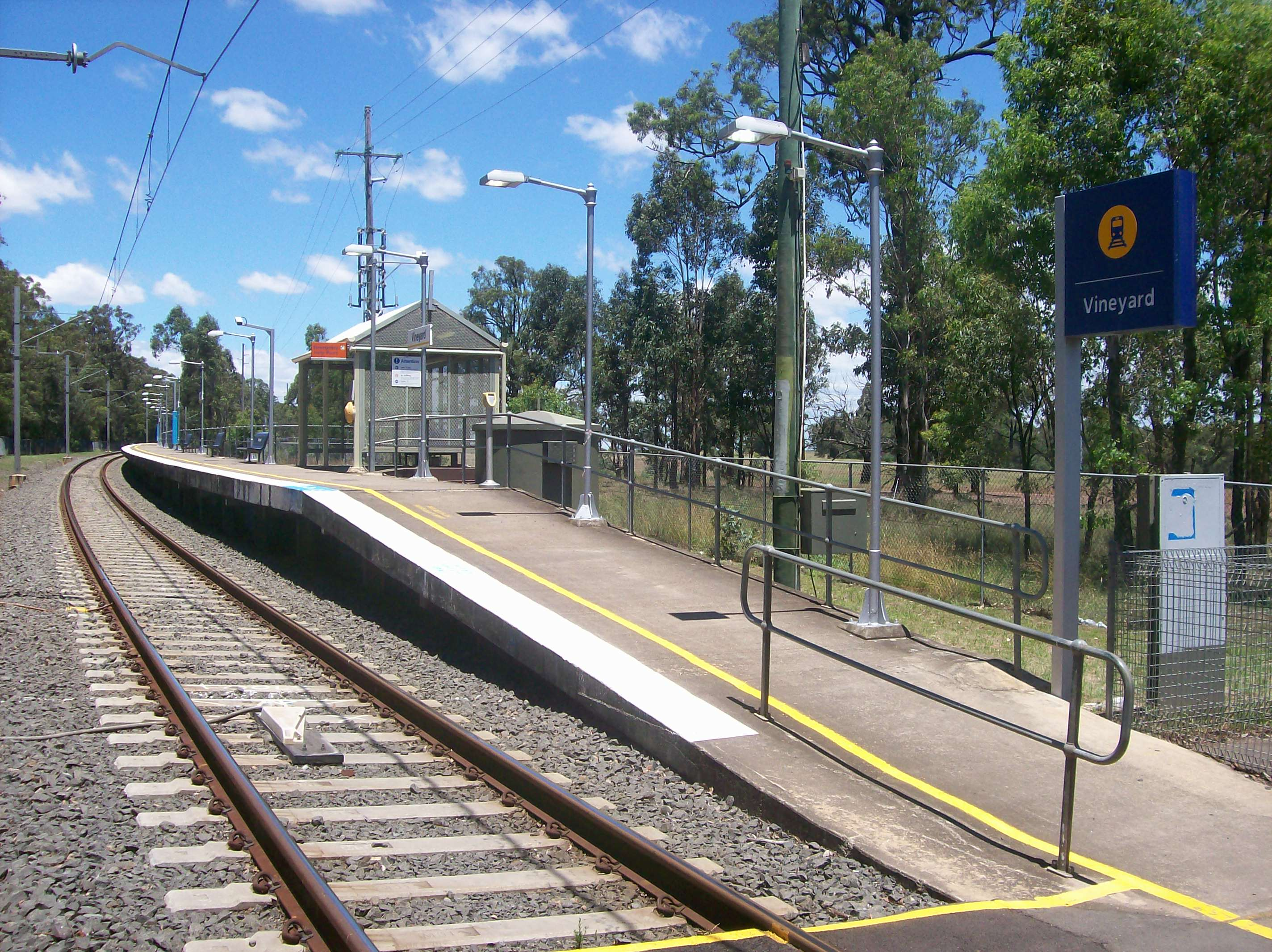 Vineyard railway station entrance